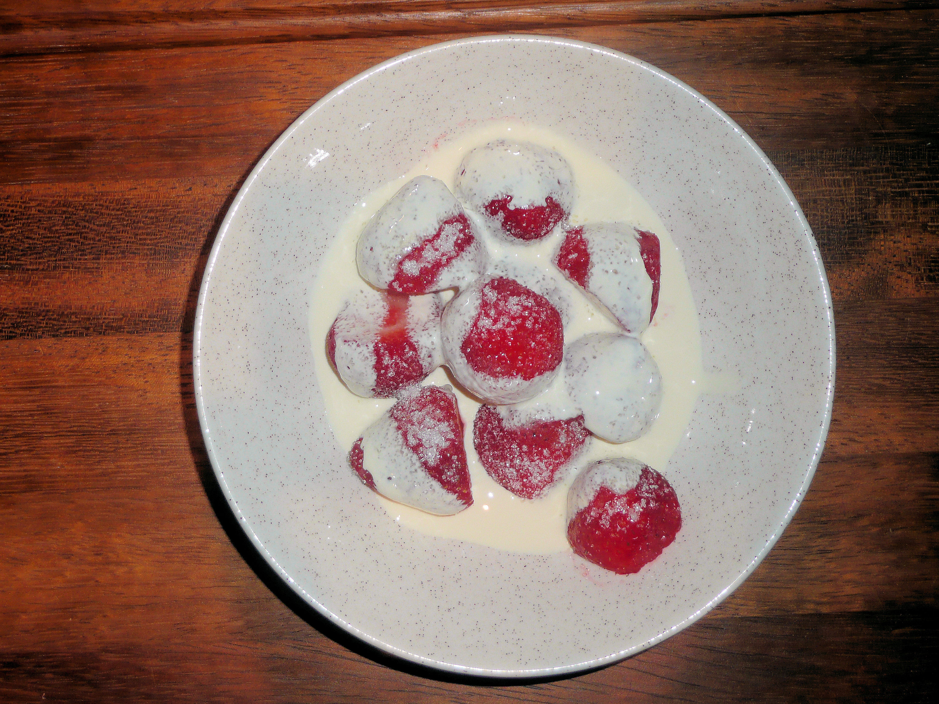 A bowl of Strawberries and cream, considered the typical english summer dessert.